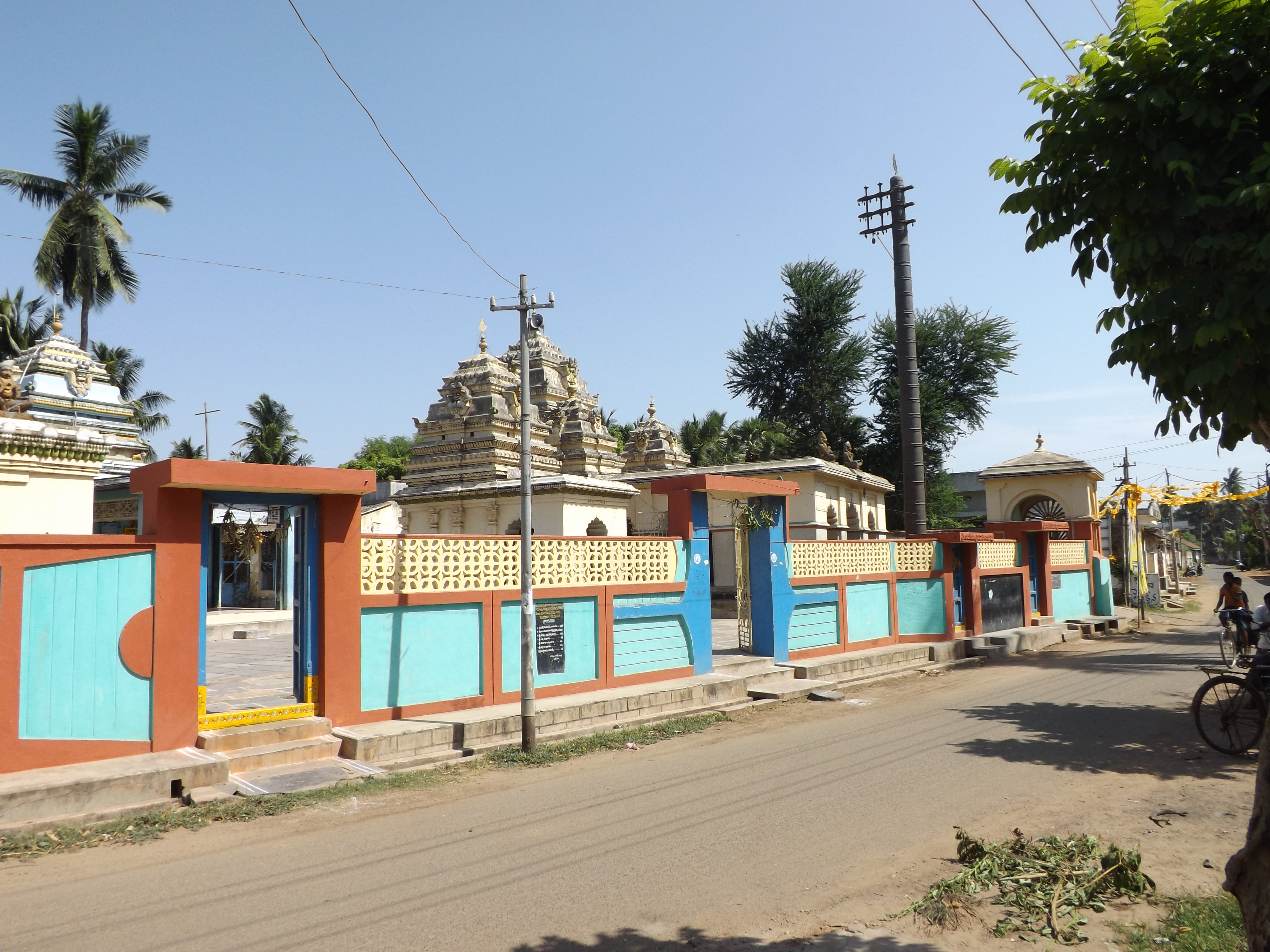 Siva Temple of A.P Village of Kodamanchili (2)